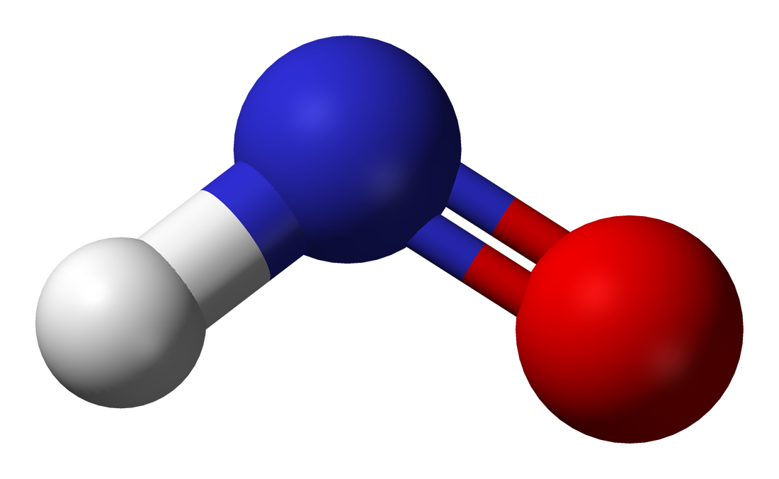 Ball-and-stick model of the nitroxyl molecule, HNO. Structure calculated in Spartan '04 Student Edition using Hartree-Fock/6-31G*. Image generated in Accelrys DS Visualizer.